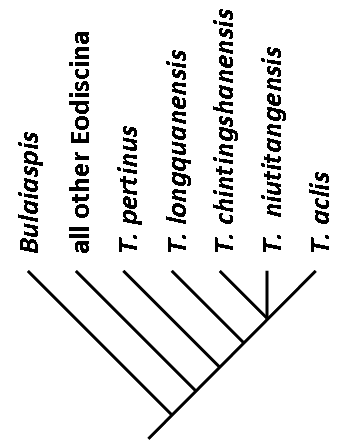 Cladogram of the relations with the monotypical family Tsunyidiscidae, with other Eodiscina and with the ancestrial genus Bulaiaspis (Redlichiina, Chengkouaspidae). Based on T.J. Cotton and R.A. Fortey Comparative morphology and relationships of the Agnostida, in S. Koenemann and R. Jenner (eds.) Crustacean Issues 16, Crustacea and Arthropod Relationships (2005). CRC Press, Boca Raton.